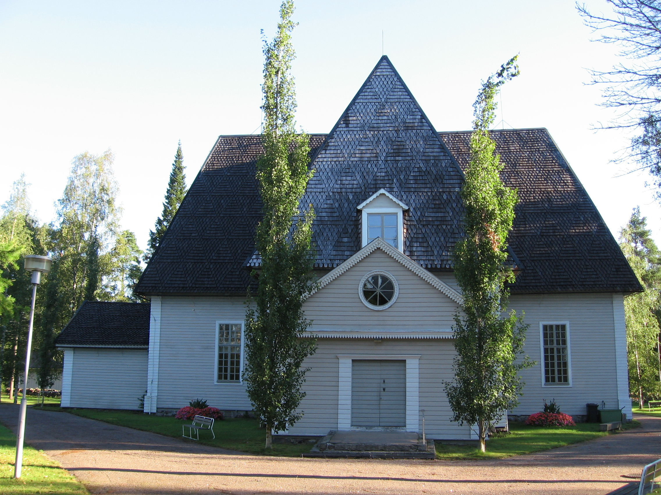 Elimäki Church in Elimäki, Finland